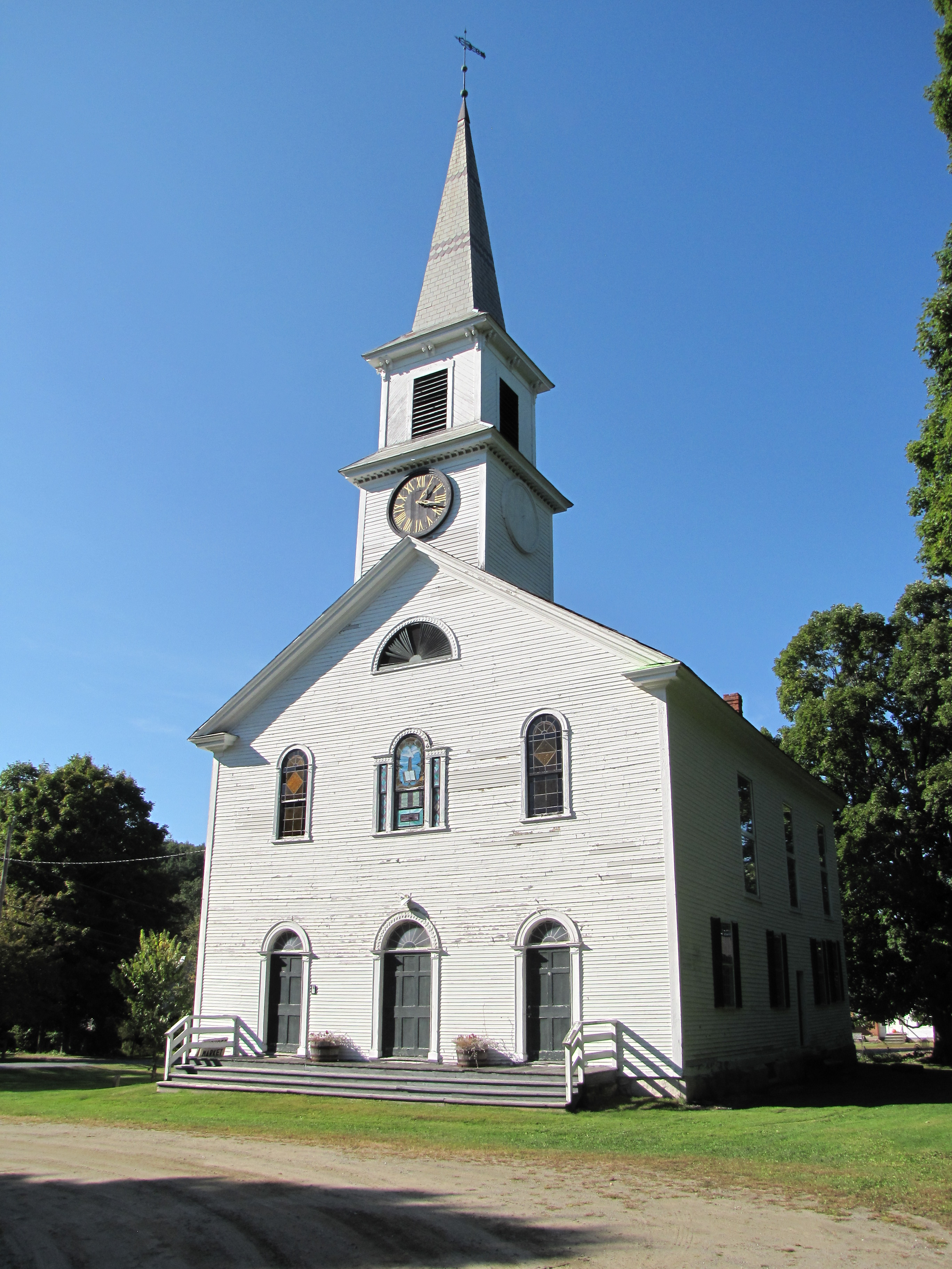 First Baptist Church of Cornish, Meriden Stage Rd. and NH 120 Cornish Flat